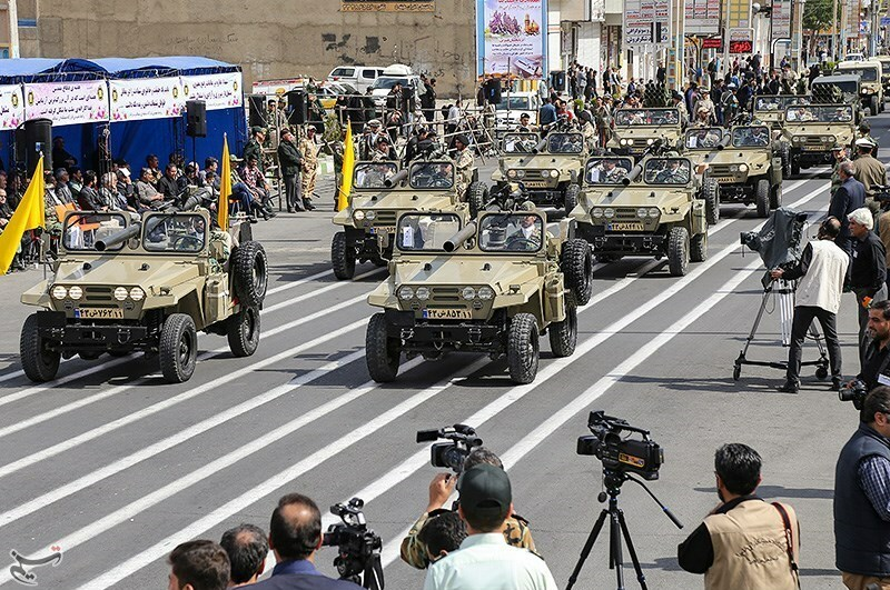 Safir Jeeps at a parade in Tehran.